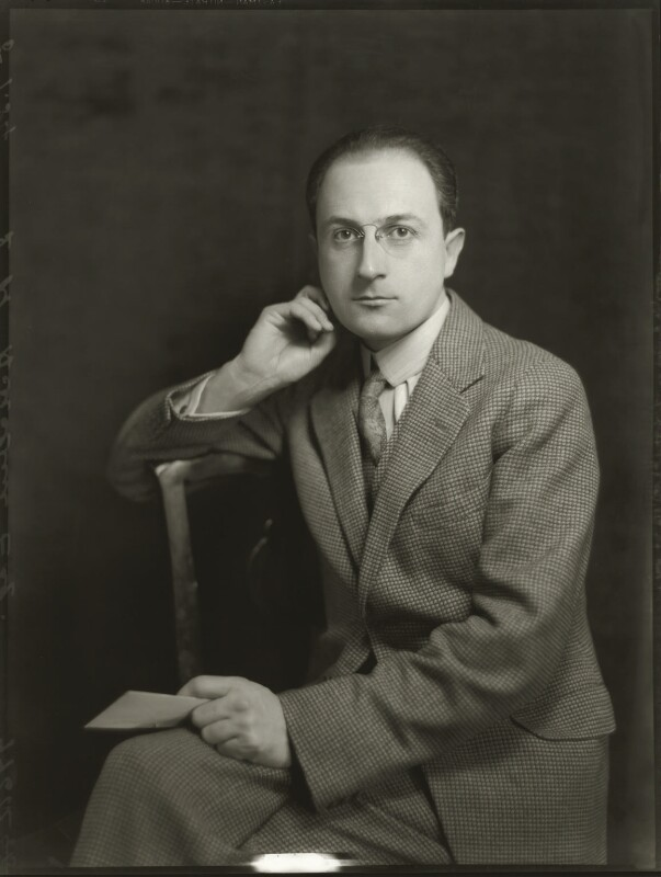 Ian Horobin